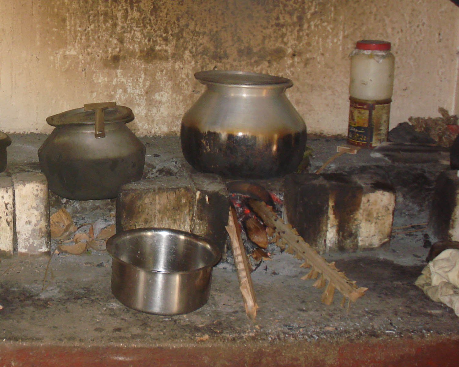 Cooking place